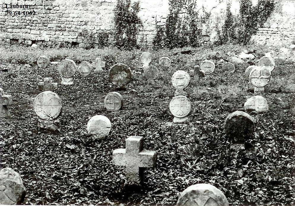 Photograph of the old cemetery of Lacommande in its original configuration taken in 1979 by the Lauburu association